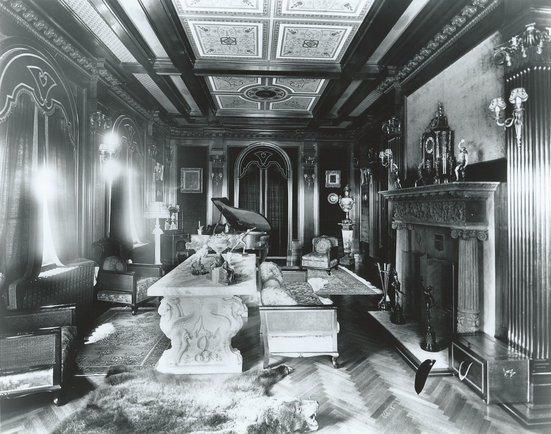 Drawing room (circa 1930), Marius Dufresne House (Château Dufresne), 4040 Sherbrooke Street East, Montreal, Quebec, Canada.